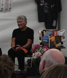 Dervla Murphy at the Shakespeare and Co. Travel in Words symposium.